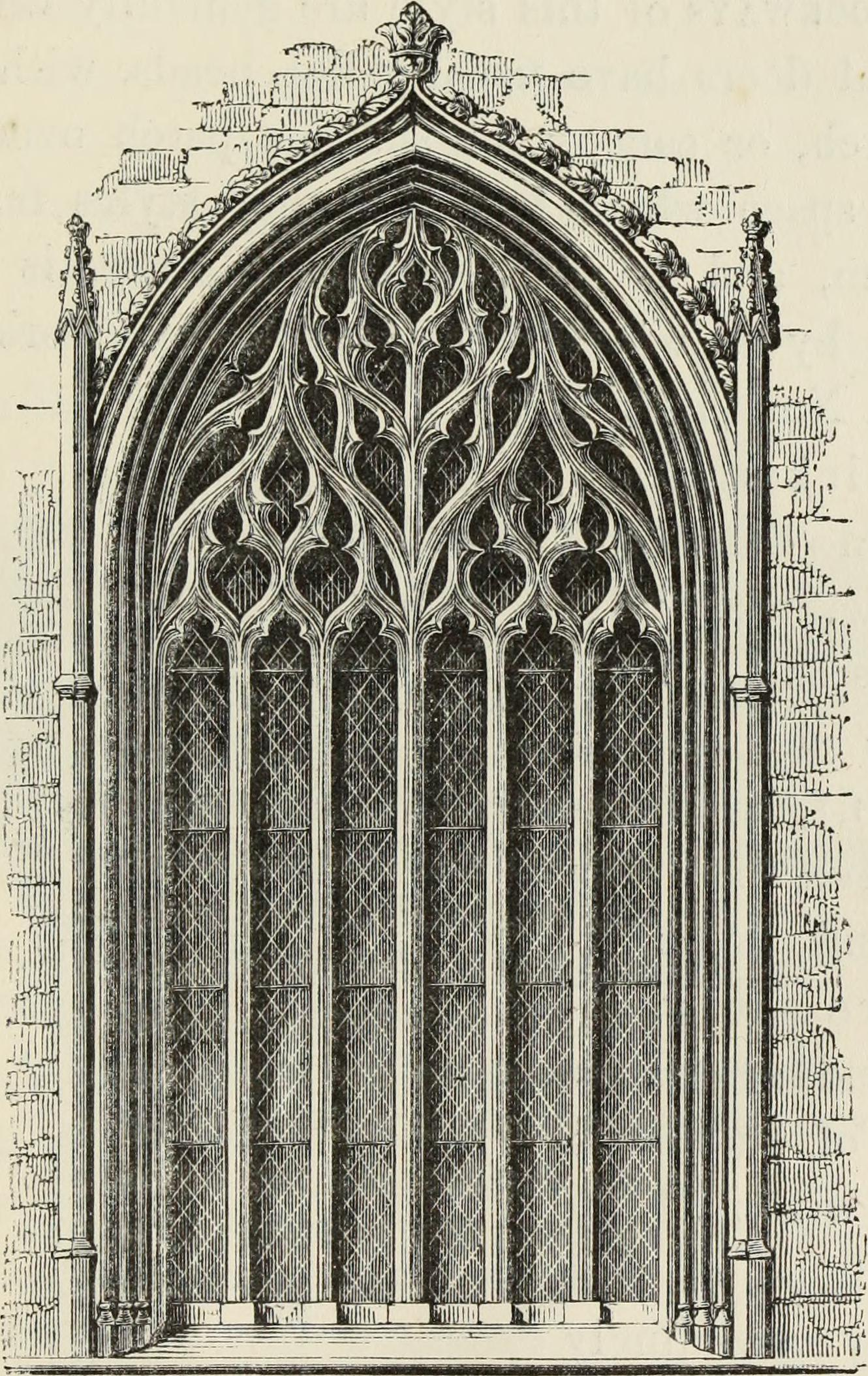 Title: An introduction to the study of Gothic architecture Year: 1877 (1870s) Authors: Parker, John Henry, 1806-1884 Subjects: Architecture, Gothic Publisher: Oxford: J. Parker and Co. Text Appearing Before Image: THE FLAMBOYANT STYLE. 261 windows IS frequently formed in such a manner as tointroduce a large fleur-de-lis conspicuouslj^ in the headof the window; in other instances the outline of a heartis similarly introduced, and sometimes the heraldic de-vice of the family who built the church is formed inthe tracery. Text Appearing After Image: 180. S. Saveur, Dinan, c. 1500.A French Flamboyant window. The windows are of course the chief marks of thestyle, and are readily distinguished by the waving, 262 THE FLAMBOYANT STYLE, flame-like character of the tracery (180). The clere-story windows of this style are generally large andimportant; and the back of the triforium being com-monly glazed also, makes that appear a continuationof the clerestory windows. The Doorways of this style are generally very rich ;the actual doors have usually flat heads, with an en-riched arch, or canopy, or shallow porch over them;and the space which in the earlier styles forms thetympanum, and is filled with sculpture, is usuallyoccupied by a window in Flamboyant work, as atHarfleur, ISormandy (179). Mr. Eickman ob-serves, in describingthis style, that Itsessence seems to beelaborate and minuteornament, and thiscontinues until theforms and combina-tions are sadly de-based, and a strangemixture of Italianismjumbled with it. The arches of thisstyle